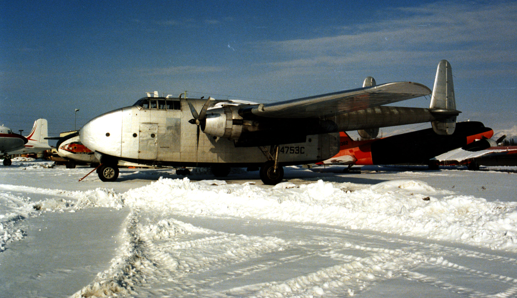 Fairchild C-82A "Packet", N4753C, Northern Air Cargo, at Anchorage Airport, 11.4.1985; ex USAF 48-574